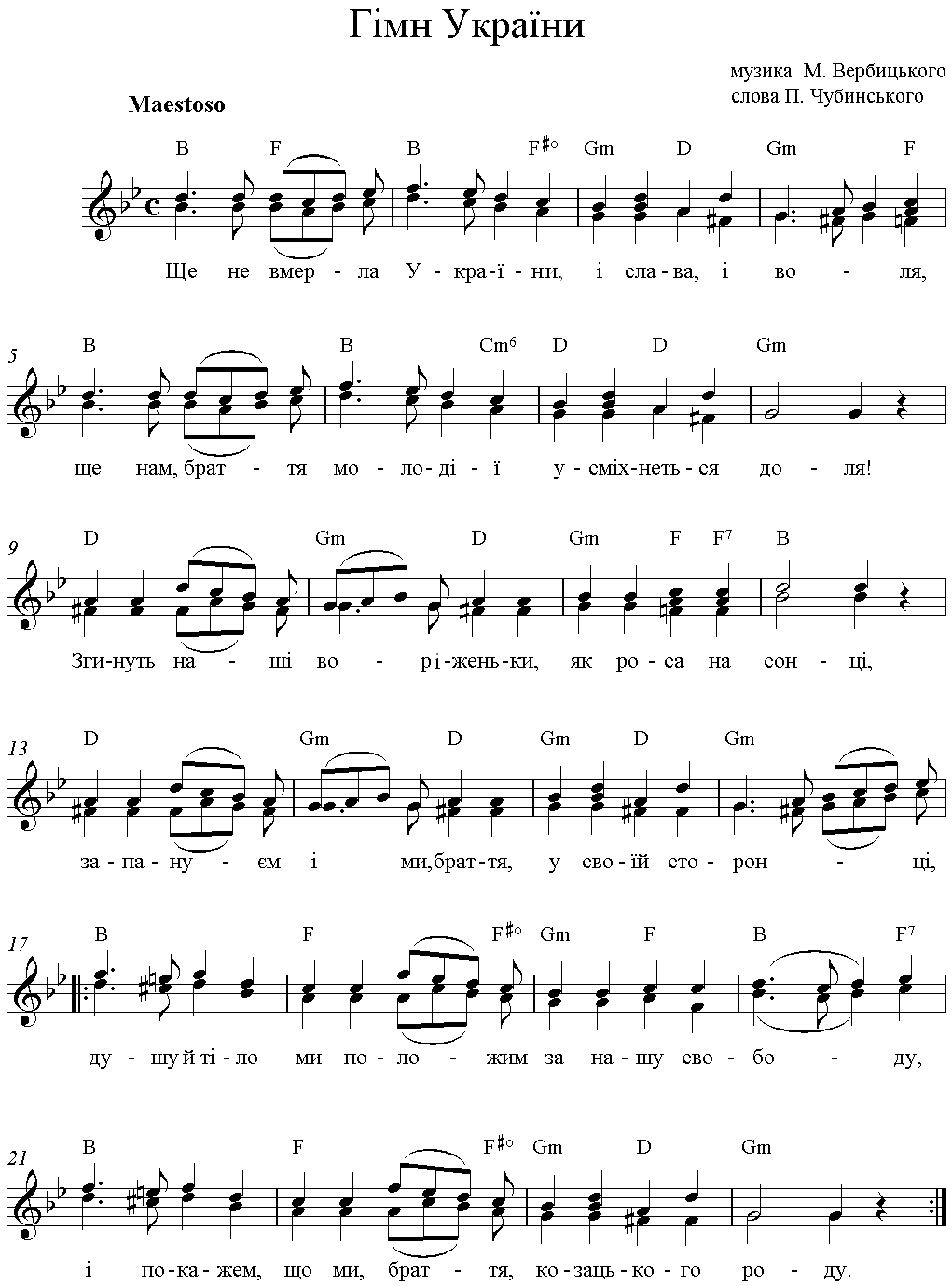 Shche ne vmerla Ukraina - national anthem of the Ukraine (march 2003)